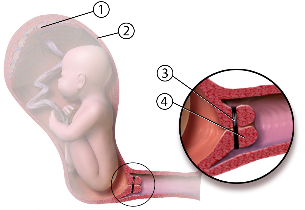 Illustration showing a cervical cerclage Placenta Uterus Cerclage band Cervix